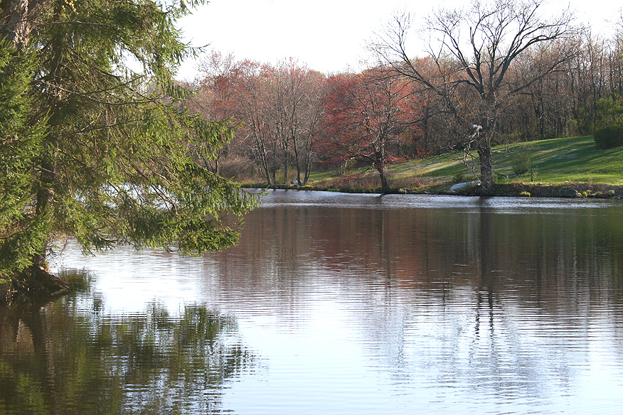 Pond off Route 19, Wales, Massachusetts. Photo by Monica Palacios-Boyce.